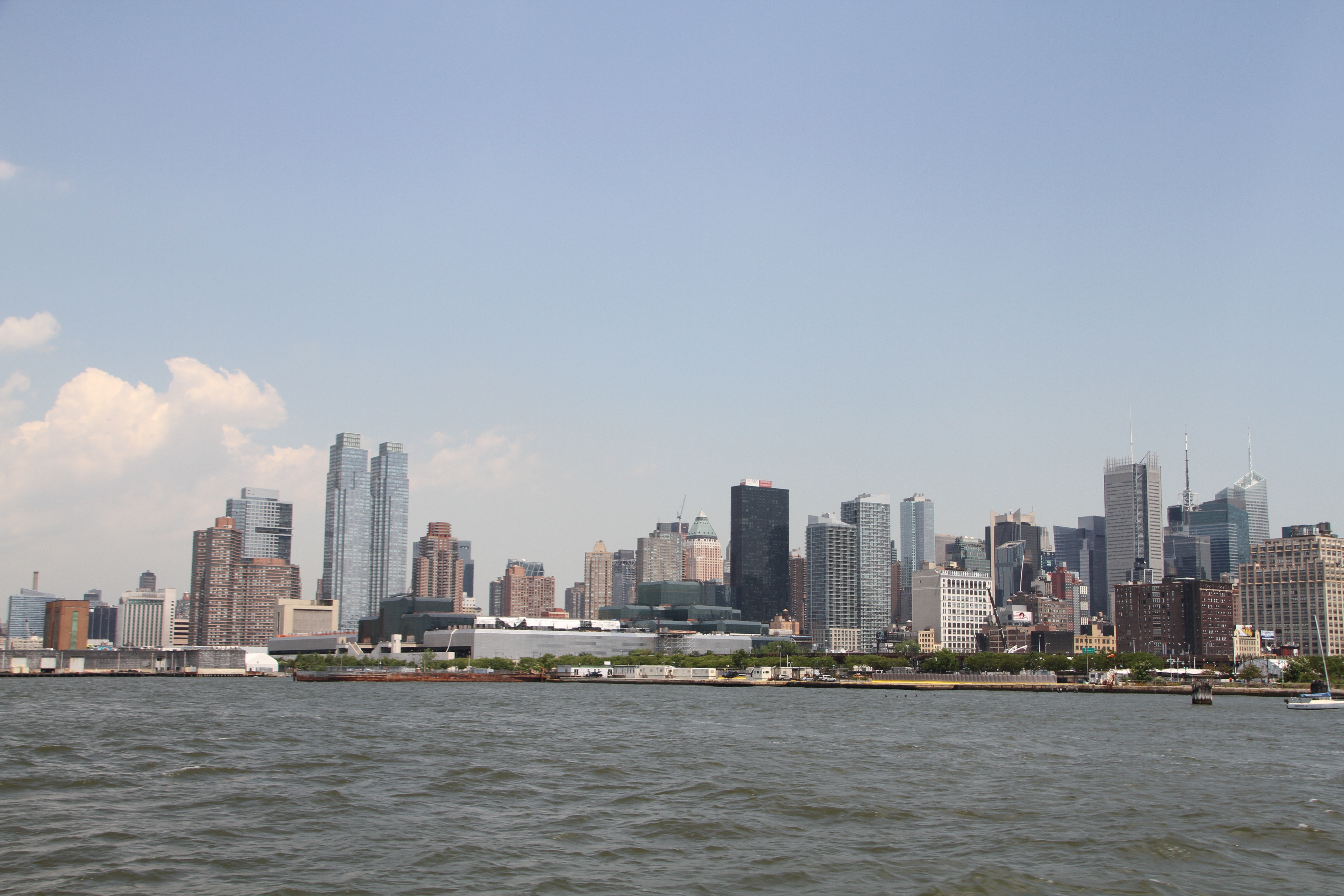 Lower west side of Manhattan, New York City